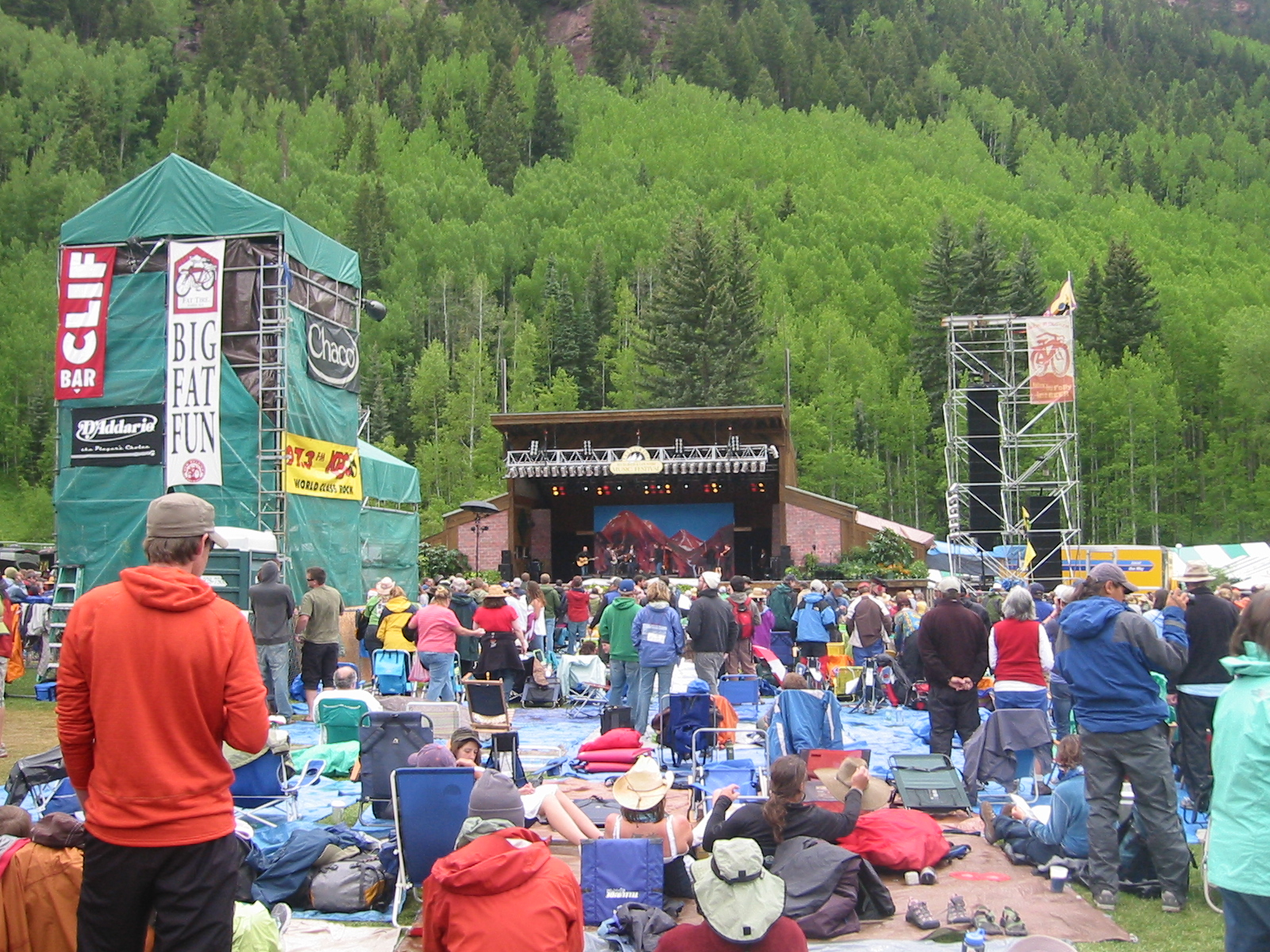 The main stage and crowd at Telluride Bluegrass Festival 2009